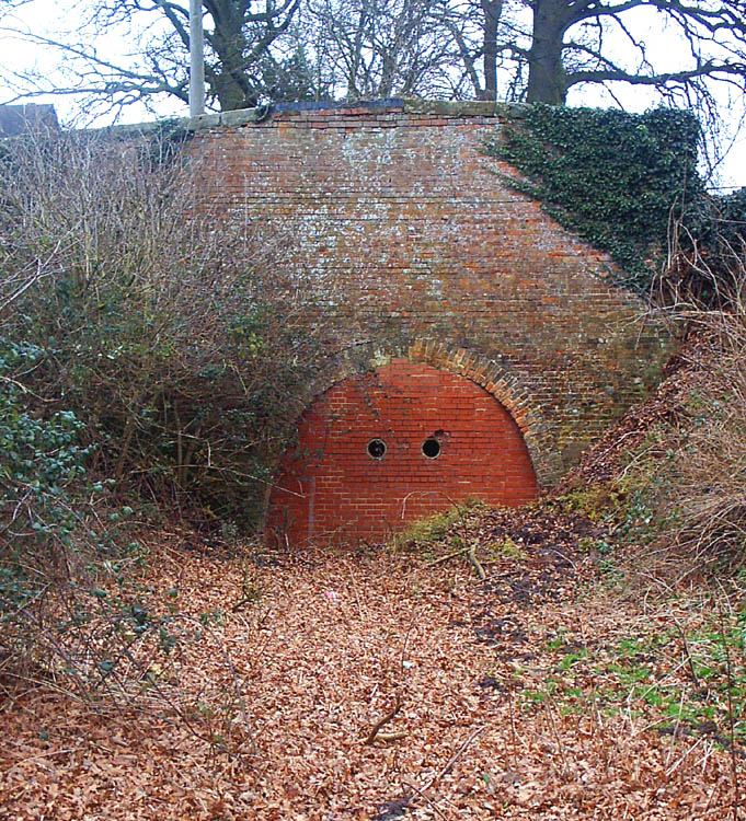 The northern portal of the former Newbold tunnel on the Oxford Canal next to the grounds of St Botolph's Church at Newbold-on-Avon in Rugby. The tunnel was in use as part the main route of the canal between the 1770s when the canal was first constructed, until the 1830s when the canal was re-aligned to follow a more direct route. However the old tunnel and part of the old route remained in use until 1840 as part of an arm serving local brick works and quarries. The present Newbold tunnel runs at a right angle to the old one. Photo by G-Man Jan 2005